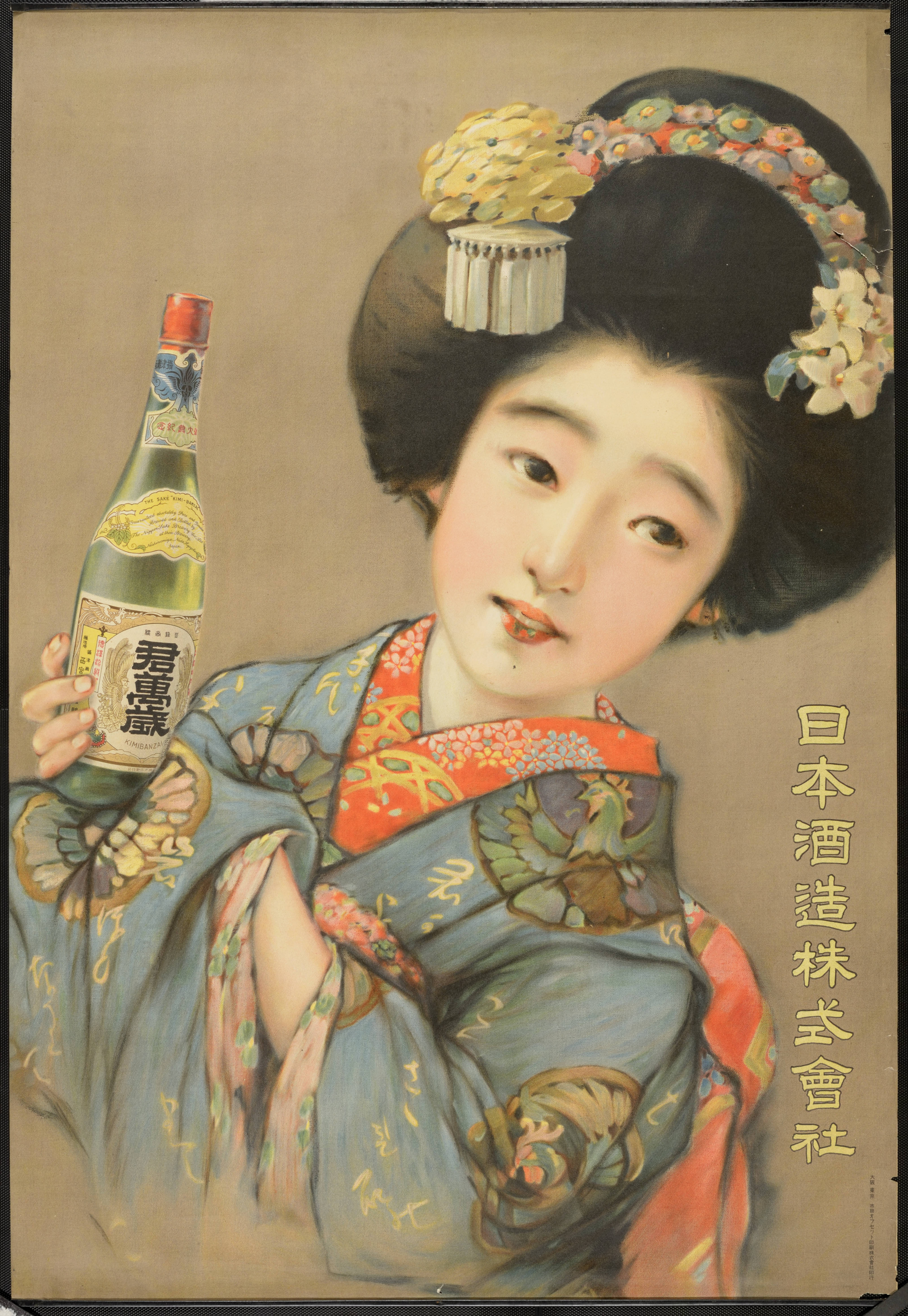 Nippon Shuzō Kabushiki Kaisha [Women in blue kimono] A woman in blude kimono holding a sake bottle, Kimi banzai 君萬歳. Geographic Subject (Continent): Asia Filename: rbm-coll3020-05-08.TIF Access Conditions: Send requests to address given. Or contact us via Phone (213) 740-1772. Coverage date: 1915/1923 Part of collection: Rare Books and Manuscripts Collection Type: images Part of subcollection: Fine Arts Subject (Corporate Name): Nippon Shuzō Kabushiki Kaisha 日本酒造株式会社 Publisher (of the Digital Version): University of Southern California. Libraries Format (imt): image/tiff Printer: Osaka and Tokyo, Japan: Ichida Ofusetto Insatsu Kabushiki Kaisha = Ichida Offset Printing Co., Ltd. 市田オフセット印刷株式會社 Archival file: rbm_Volume135/rbm-coll3020-05-08.TIF Date issued: [between 1915-1917] Identifying Number: Asian poster collection (coll. 3020). Posters of commercial products and companies, no. 5 Publisher (of the Original Version): Nippon Shuzō Kabushiki Kaisha 日本酒造株式會社 Title (Alternate): 日本酒造株式會社 Repository Name: USC Libraries. East Asian Library Language: Japanese Repository Address: Doheny Memorial Library, Los Angeles, CA 90089-1825 Contributing entity: University of Southern California Format (aat): posters Series: USC Japanese poster collection: Posters of commercial products and companies Place of Publication (of the Origianal Version): [Yonezawa, Japan] References: [Article about the brewing company] "Yonezawa Taika to kigyō" in Kahoku Shinpō (May 29, 1917) "米沢大火と機業" in 河北新報 ❧ [Article about the brewing company] "Risaigo no Yonezawa" in Jiji Shinpō (June 19-July 3, 1917) "罹災後の米沢" in 時事新報 ❧ [Website about the printing company] Ōsaka no Meiji, Taishō, Shōwa no karā insatsu: Ichida Kōshirō to sono jidai, 1885-1927 大阪の明治・大正・昭和初期のカラー印刷: 市田幸四郎とその時代, 1885-1927 Subject (lcsh): Rice wines Repository Email: Geographic Subject (Country): Japan Subject: Sake; Sake brewery